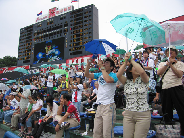 Photo of Meiji Jingu Stadium 20:56, 17 September 2006 . . Welda . . 640×480 (162,013 bytes)